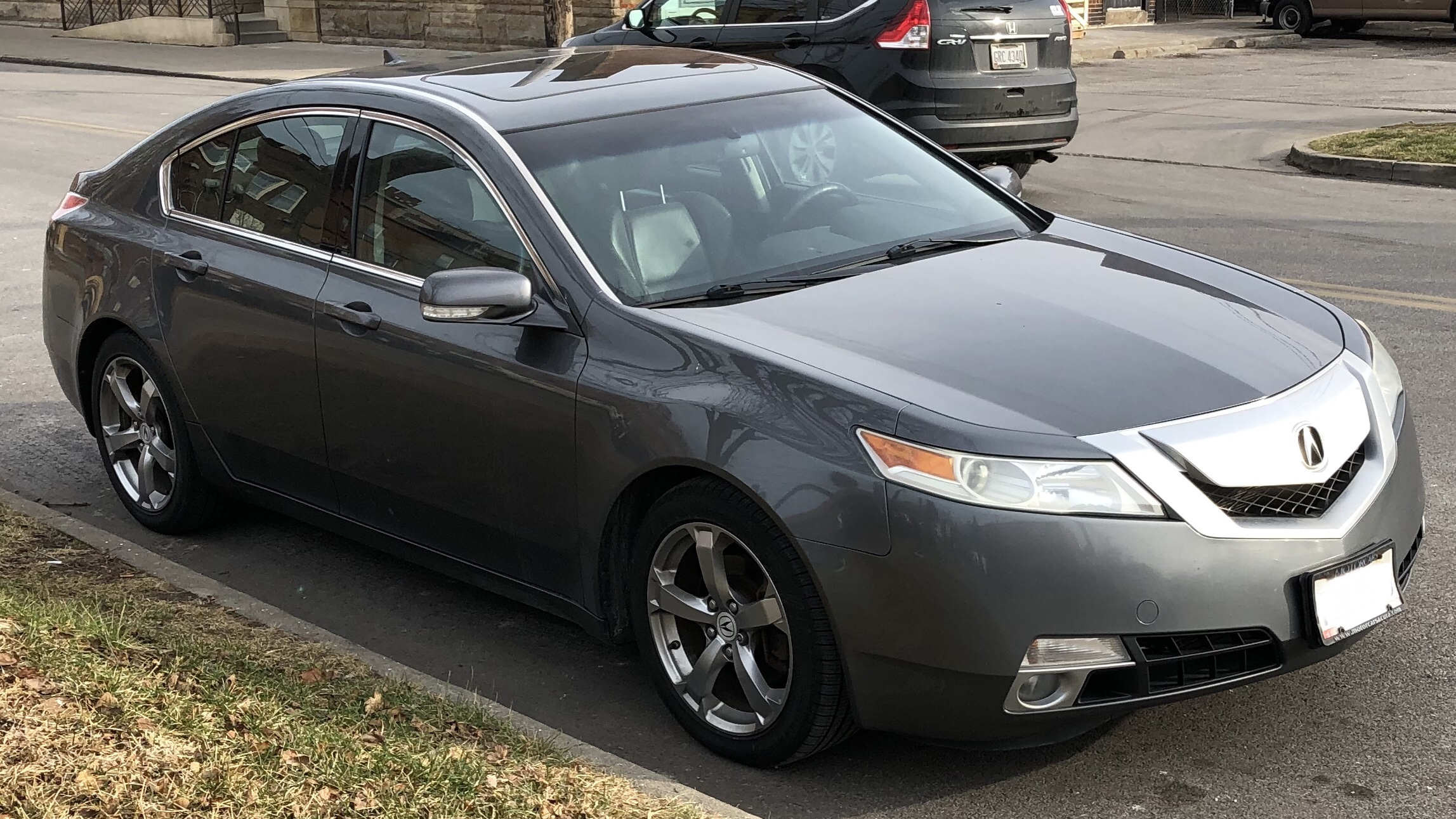 The front of a gray pre-facelift Acura TL (UA8/9)